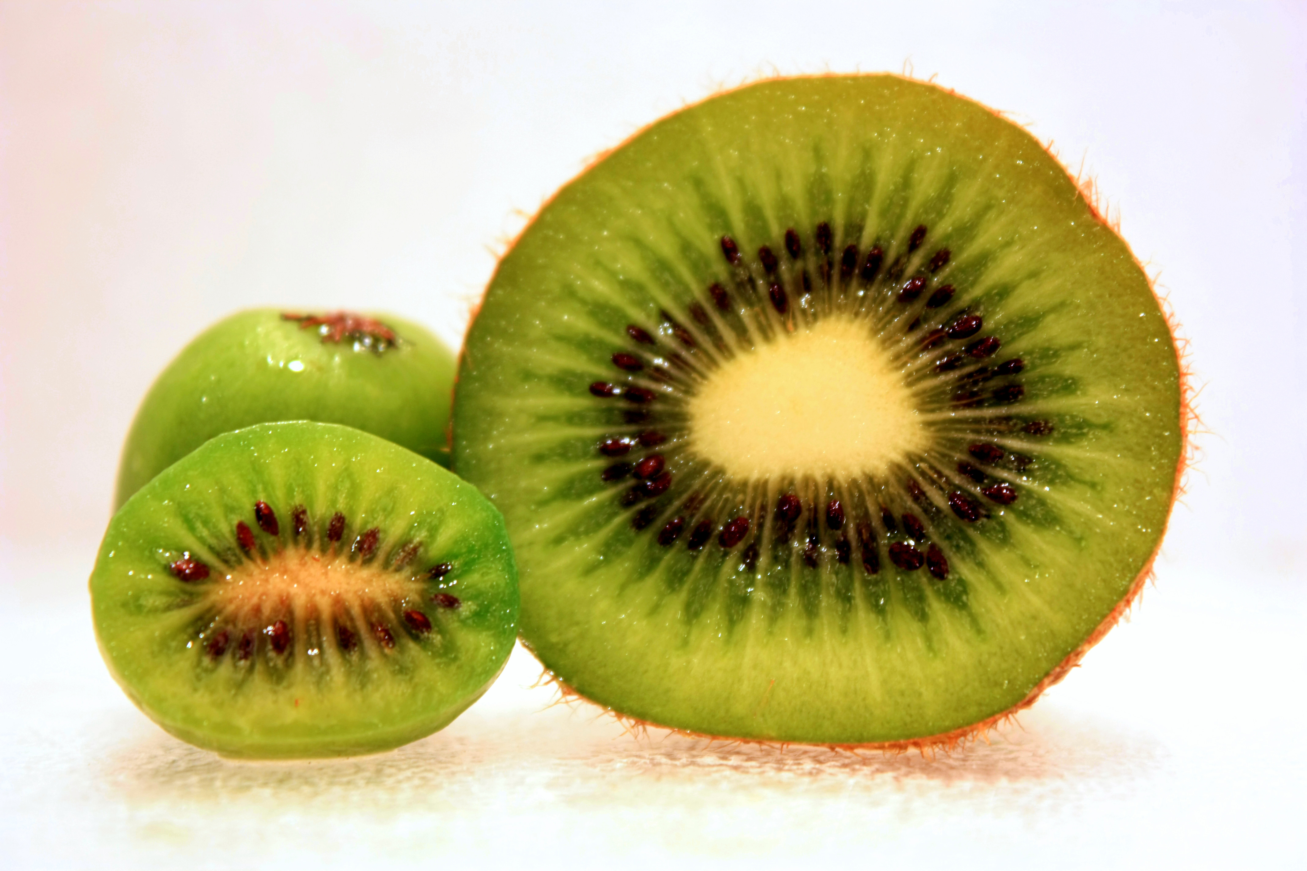 Cross-sectioned Hardy Kiwifruit relative to "fuzzy" Kiwifruit.